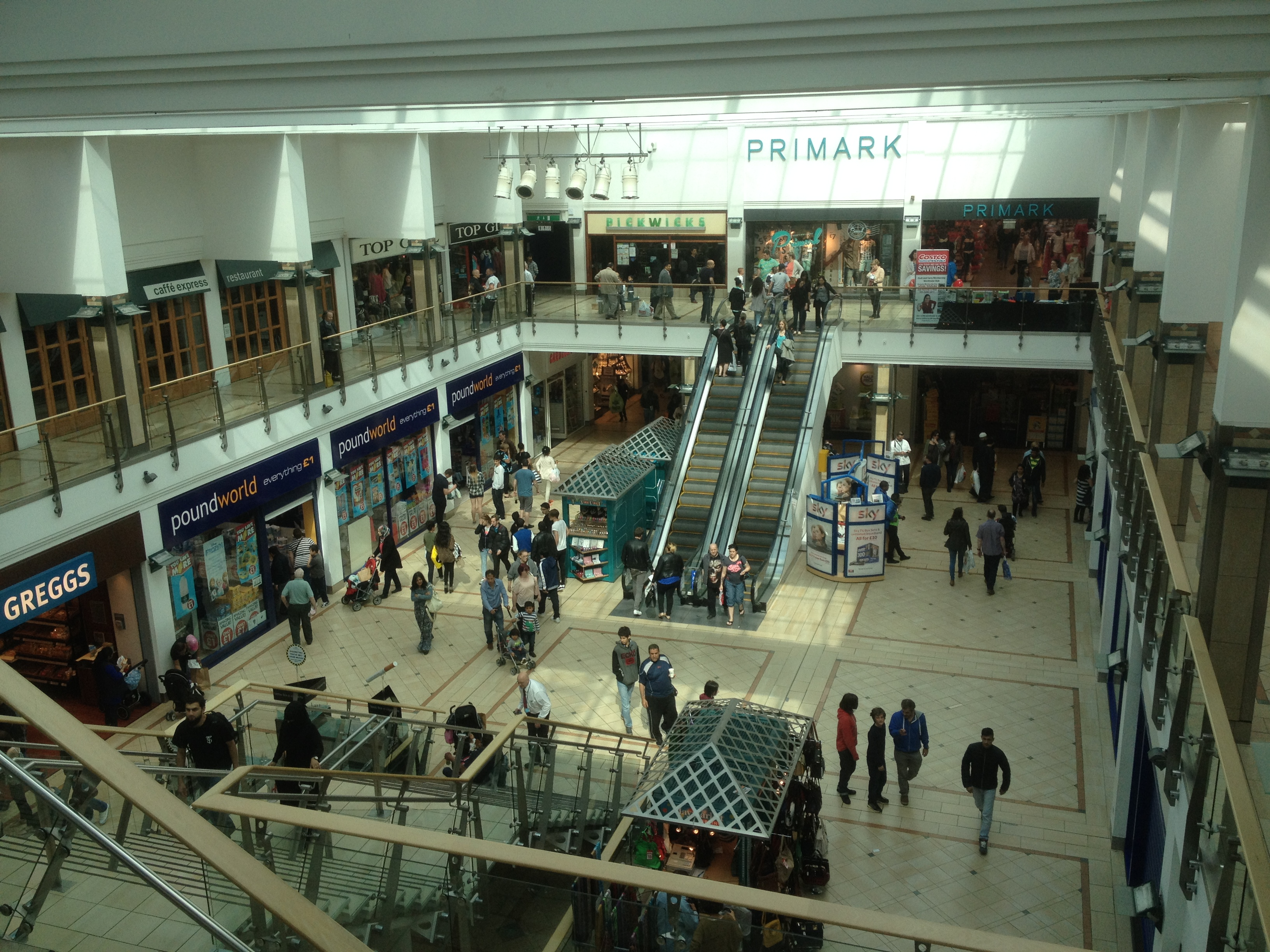 A view of the Leicester Haymarket Centre Mall